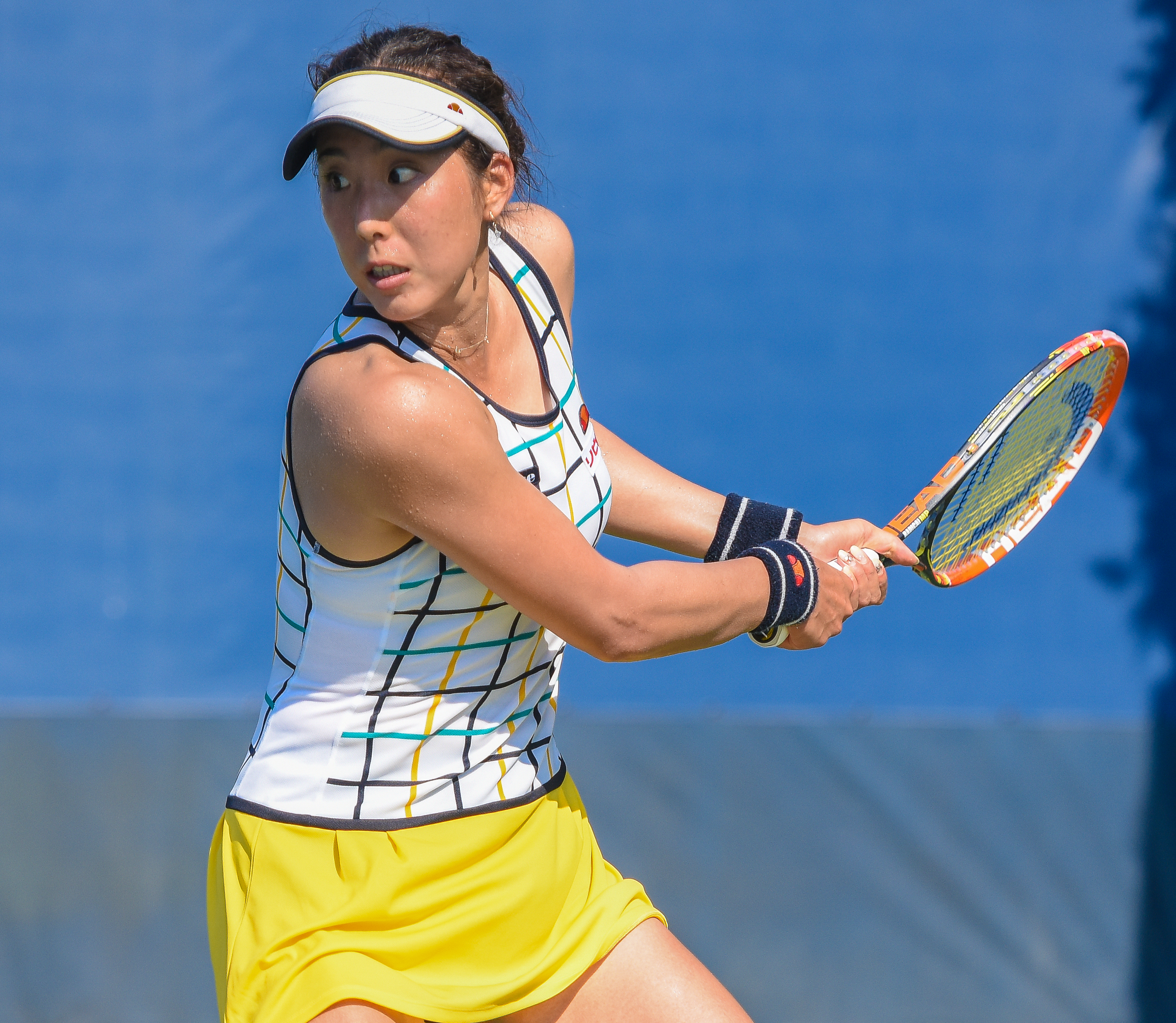 August 25, 2015 Court 9 Flushing, NY